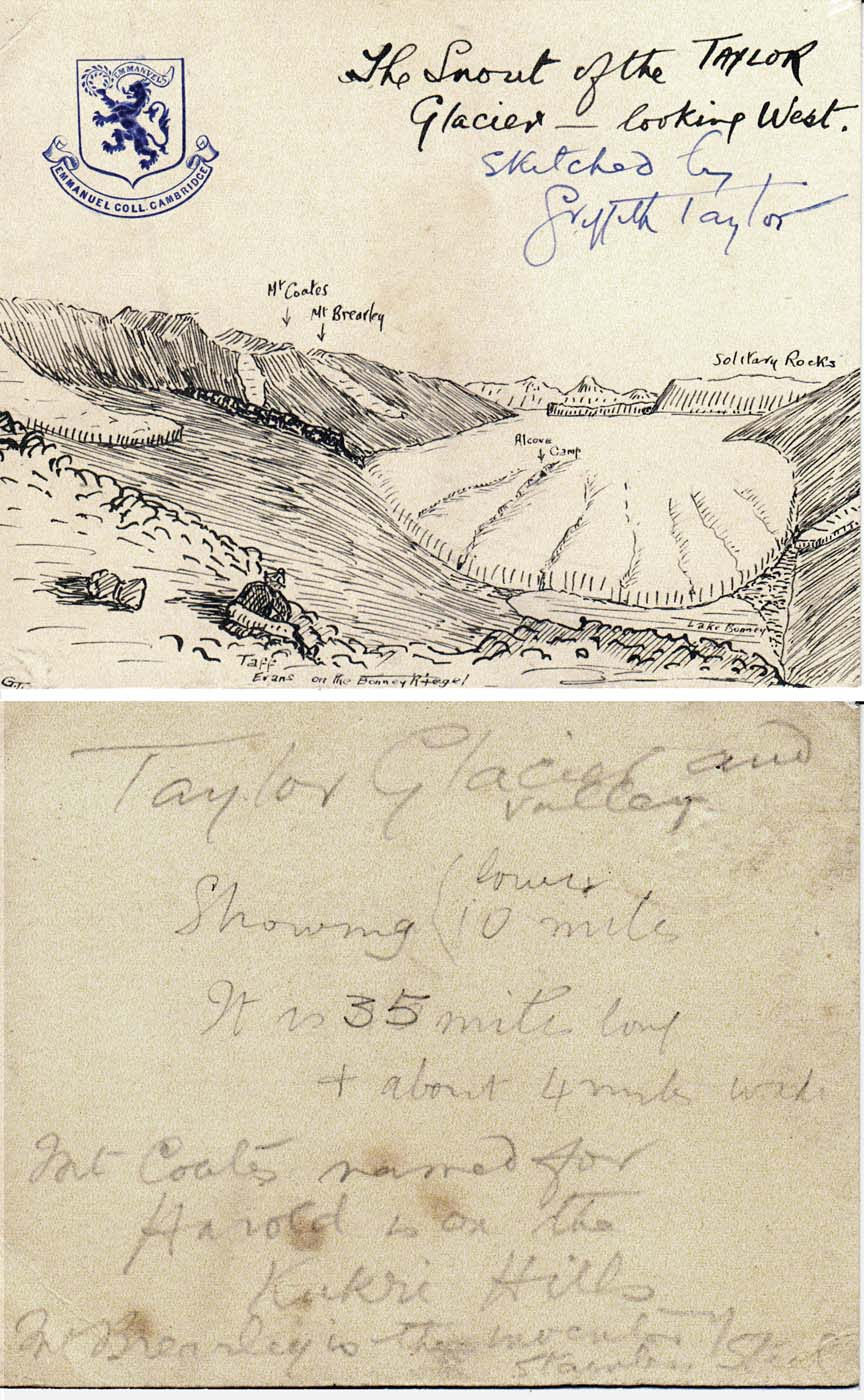 Sketch of Mt. Coates by Griffiths Taylor including note dedicating to Harold Coates